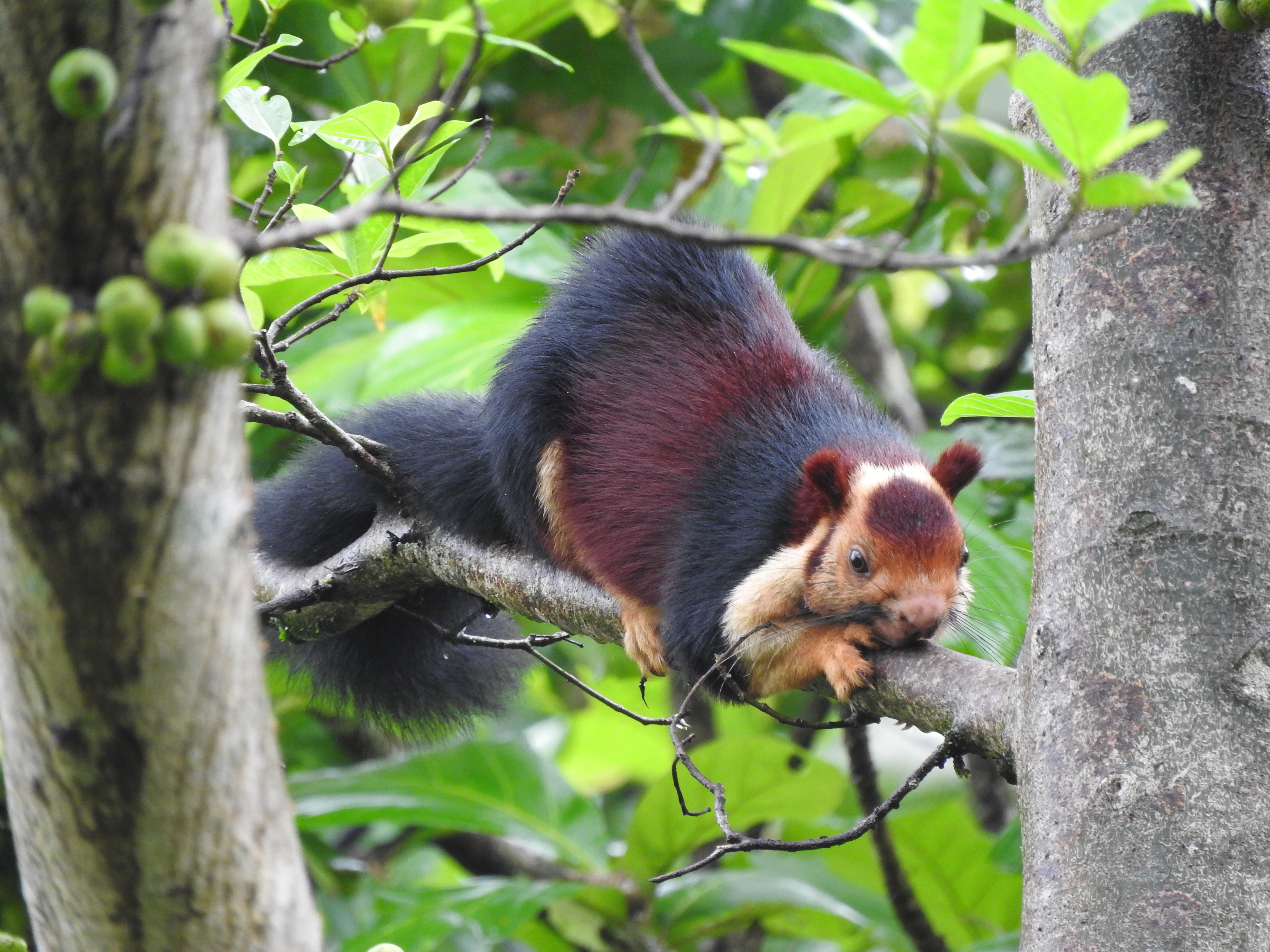 Malabar Giant Squirrel taken in Athirapilly Falls, Kerala